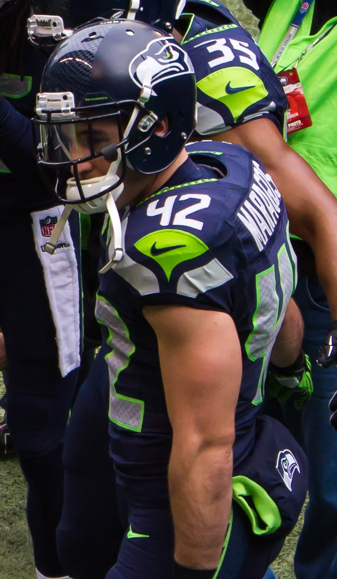 Chris Maragos, Seahawks vs Rams 12.29.13